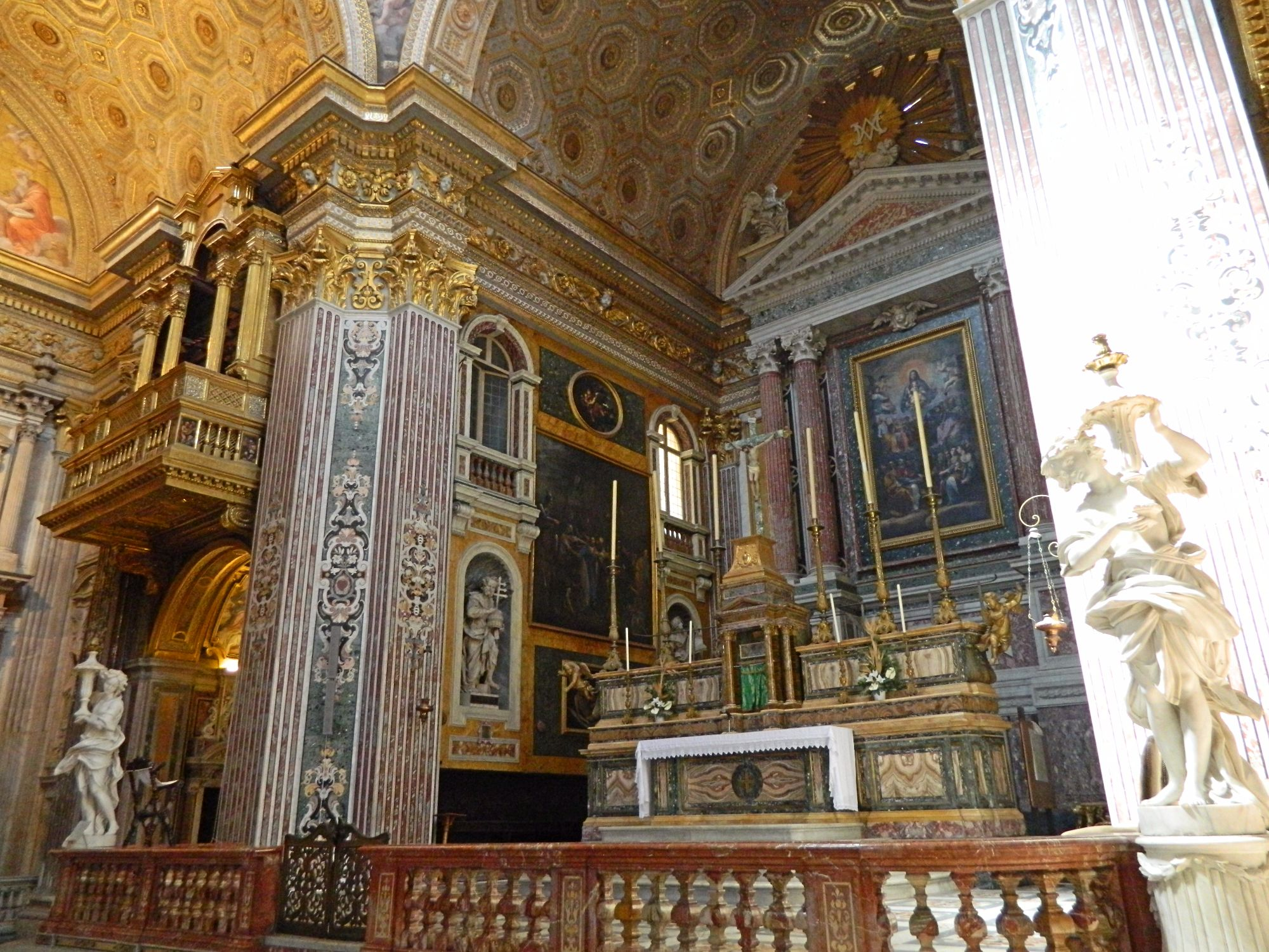 Giuseppe Sanmartino, Angeli reggi fiaccola - Sculture in marmo (1787). Chiesa dei Girolamini (Napoli)